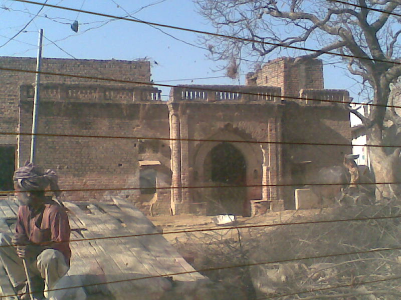 And old house in Khanda Village.